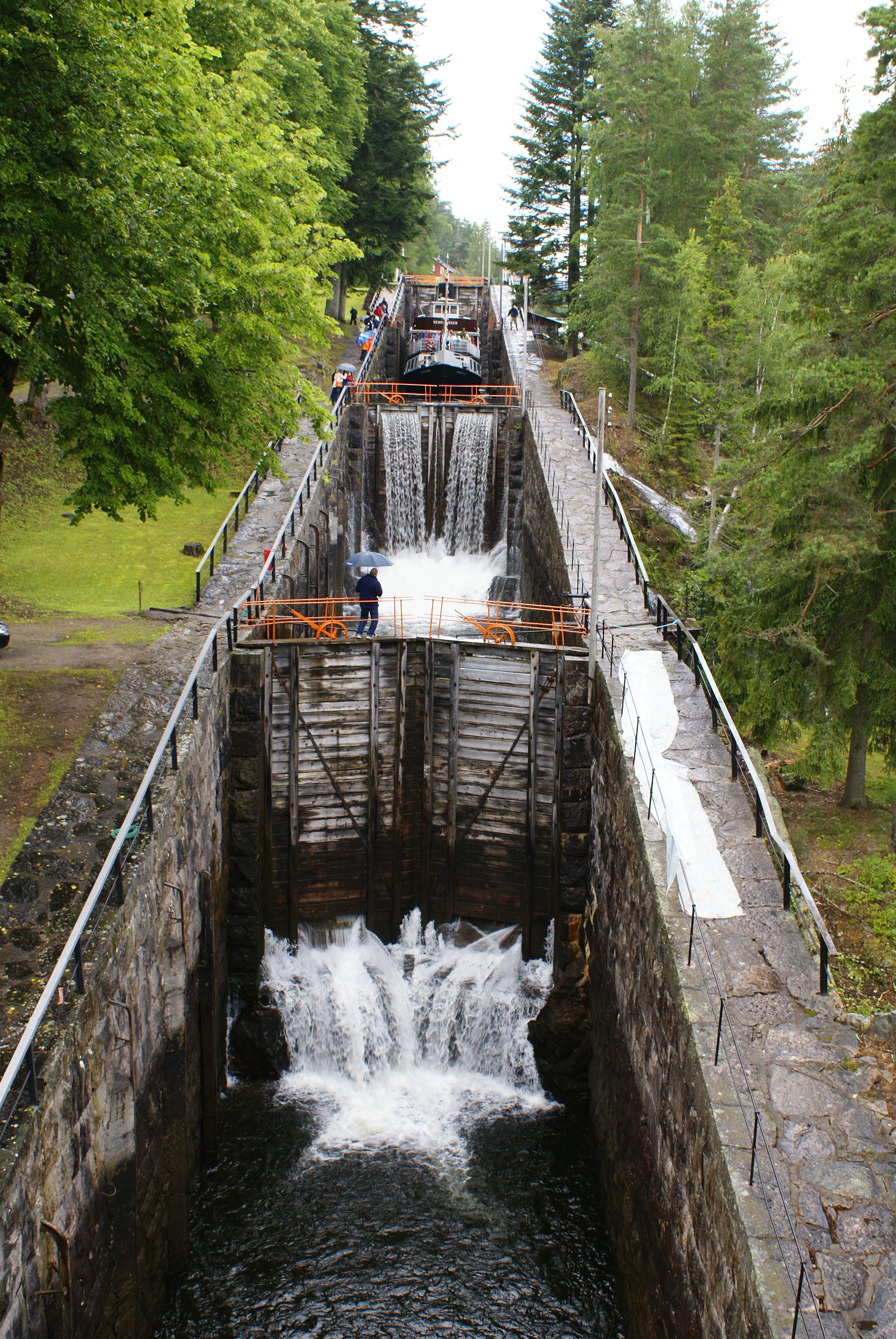 Vrangfoss locks, Telemark Canal, Norway.